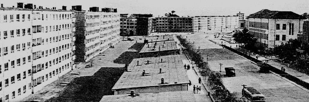 Hamhung circa 1960